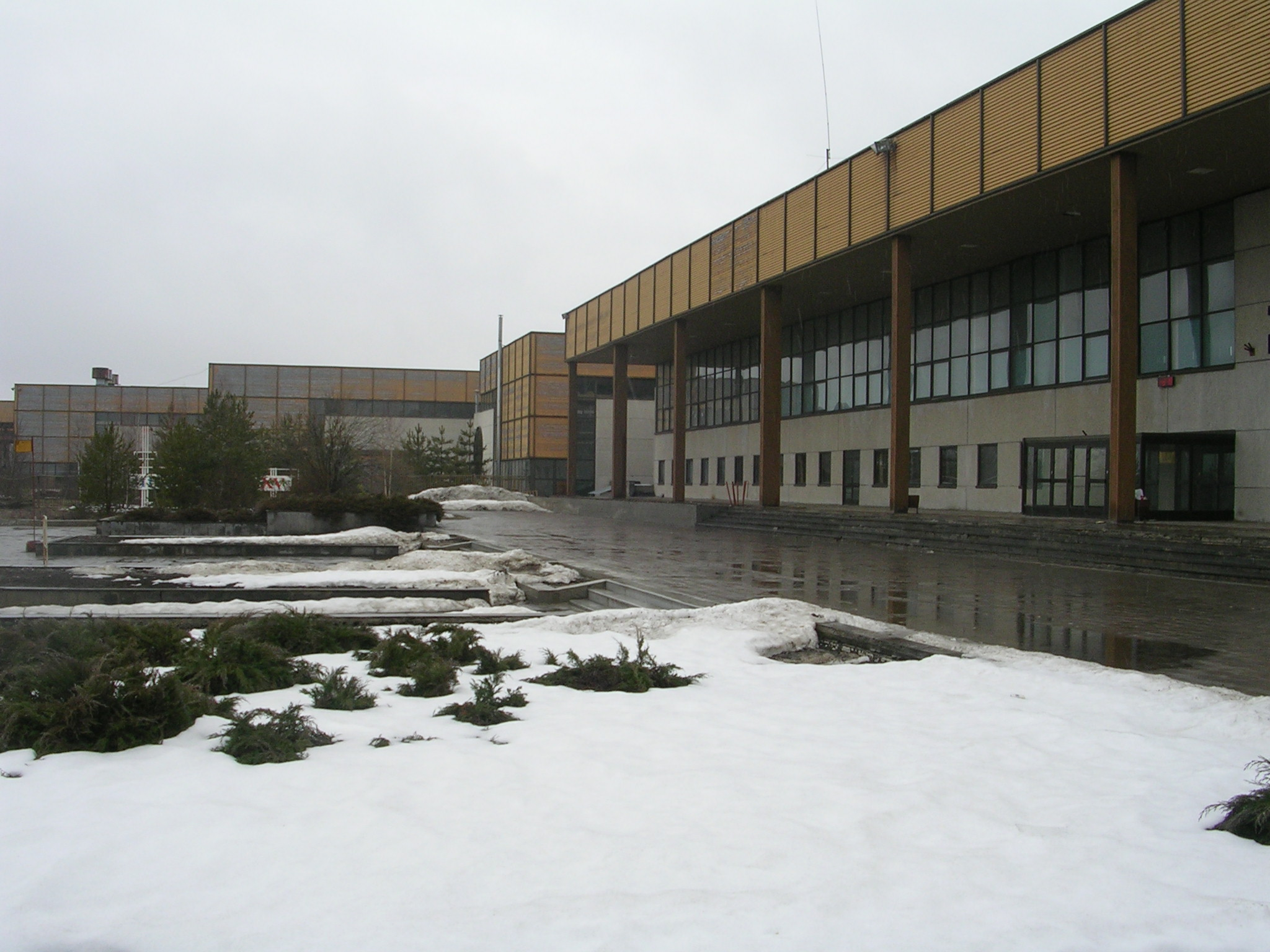 institute of problems of laser and information technologies (Russian Academy of Science) building (later - technological lasers institute)